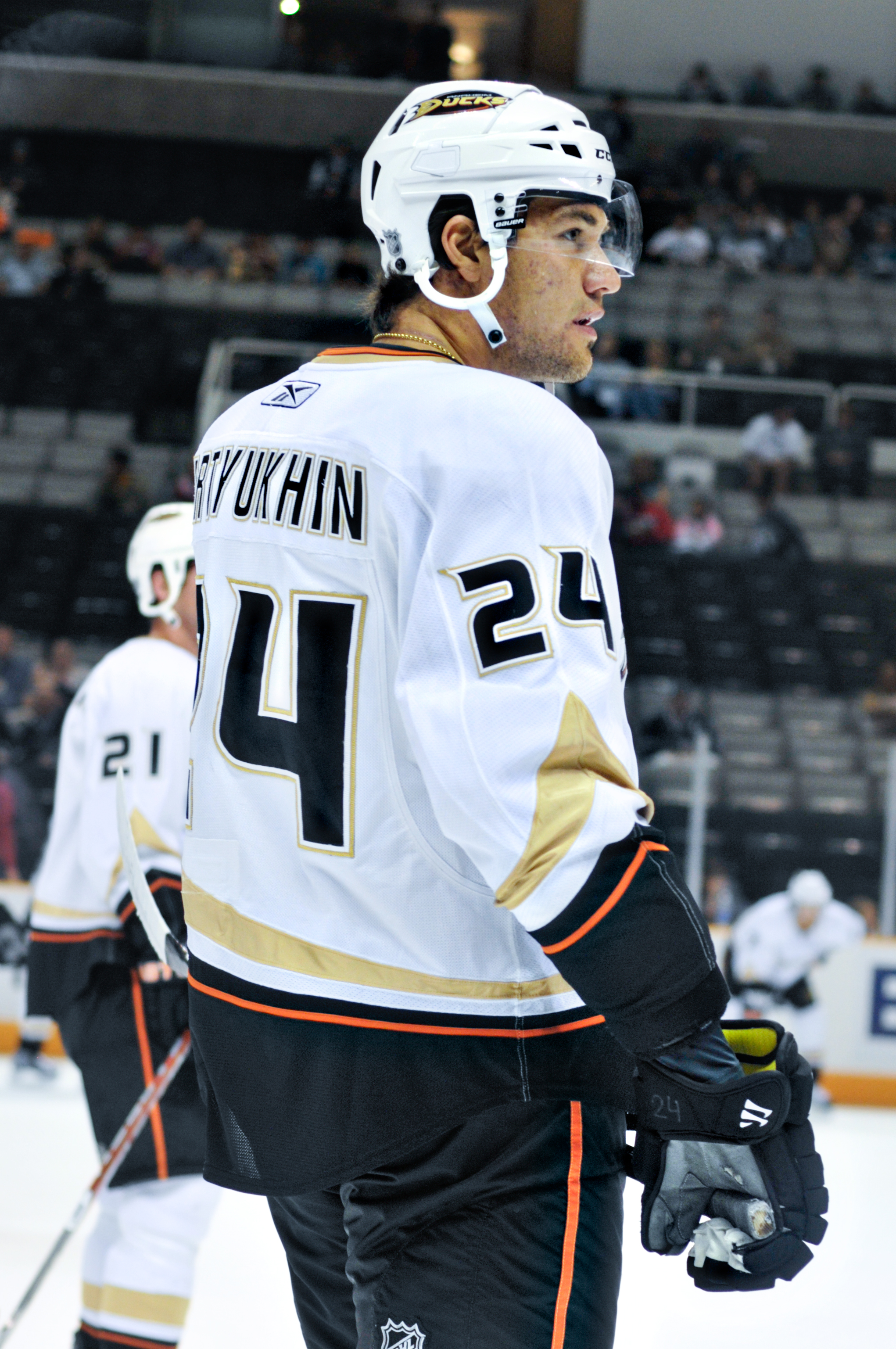 Evgeny Artyukhin of Anaheim Ducks